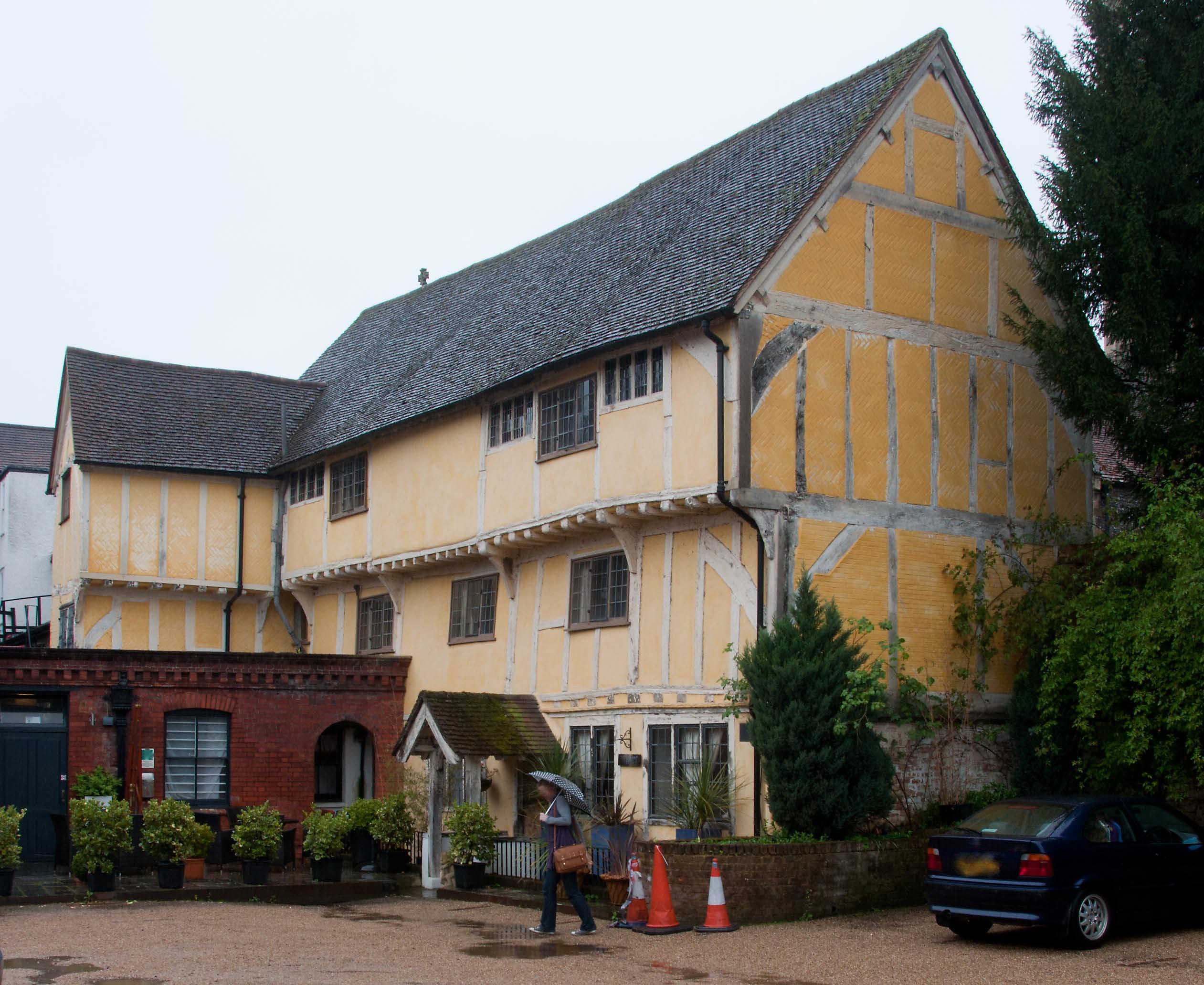 Looking south west. St Mary church can just be seen through the tree to the right